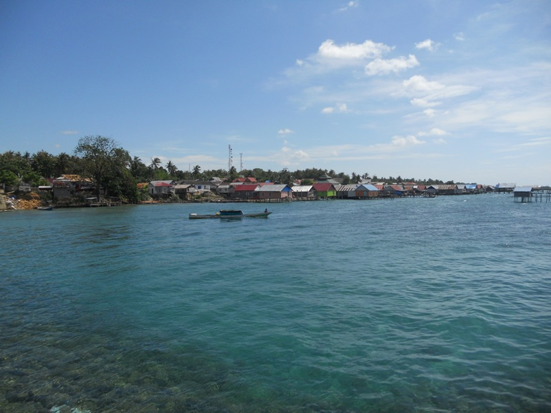 Sea view in Tampo Village, Napabalano District, Muna Regency, South East Sulawesi, Indonesia.